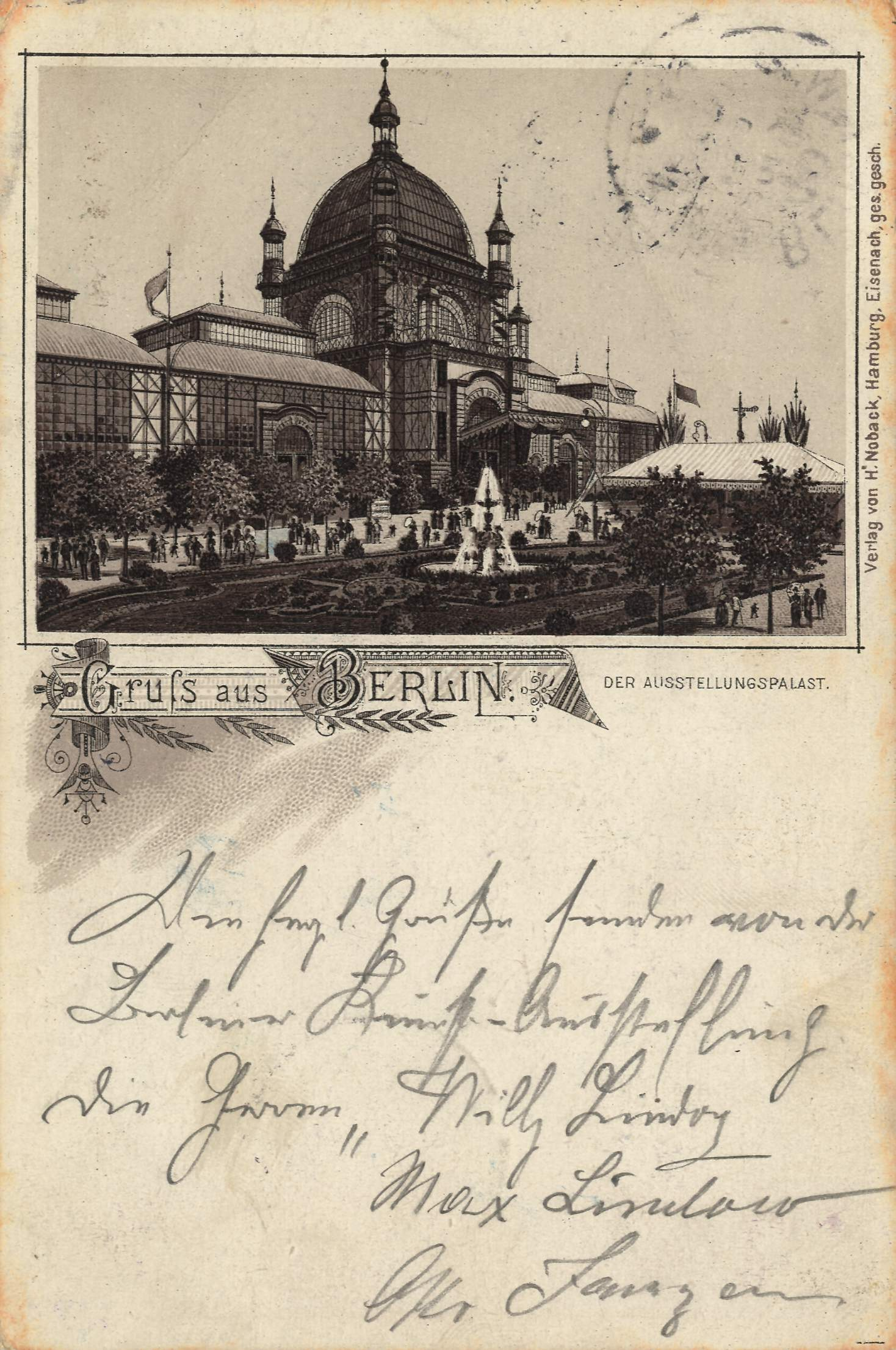 The Ausstellungspalast (“exhibition palace”) of the Universum Landes-Ausstellungs-Park (ULAP) in Moabit, Berlin. The building was destroyed in an Allied air raid in 1943.